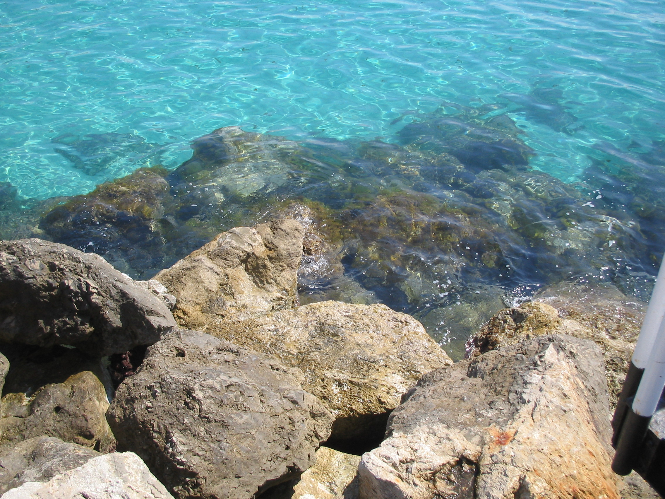 Rocks in the sea shore